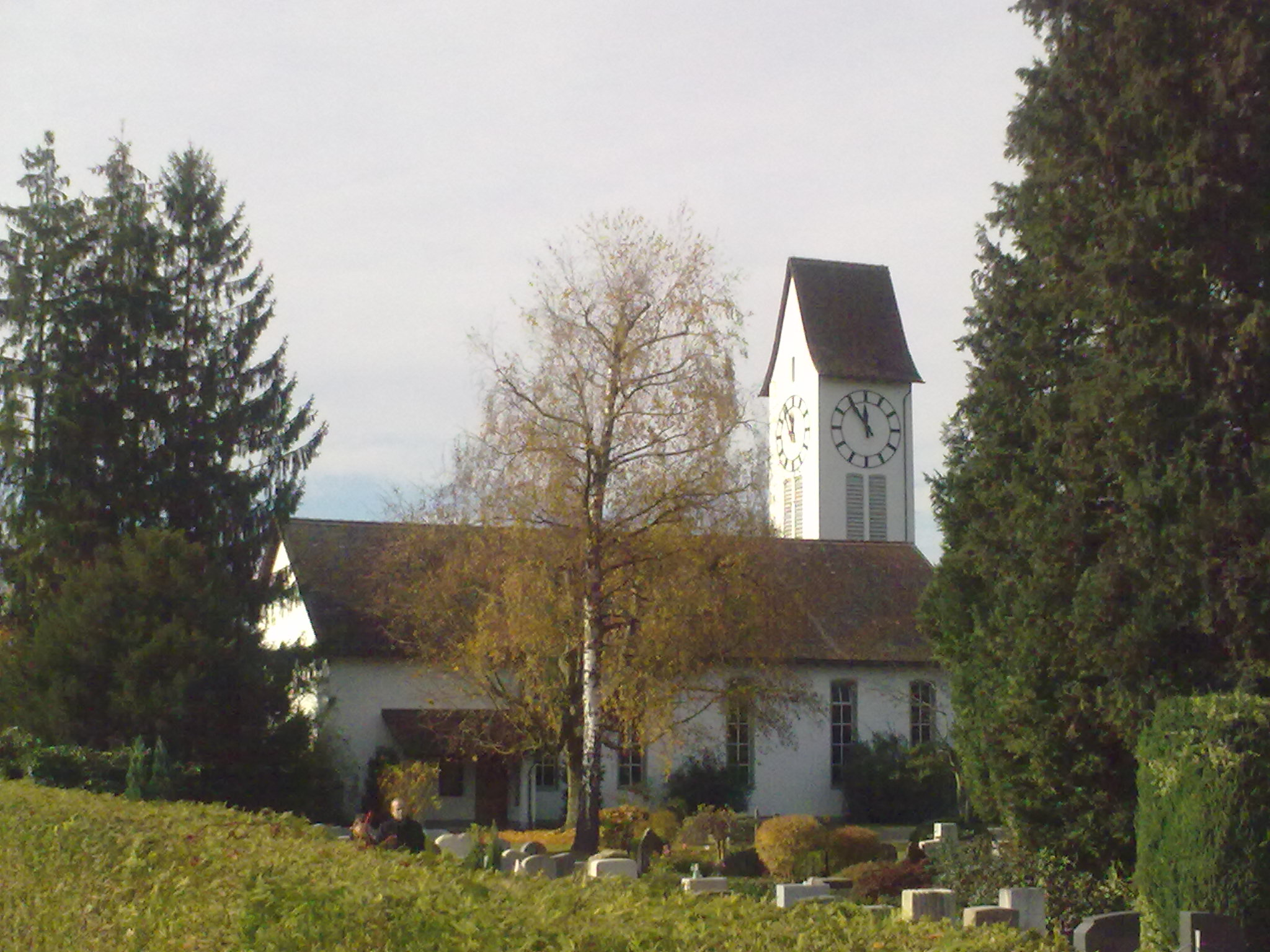 Reformed Church Niederlenz in Switzerland